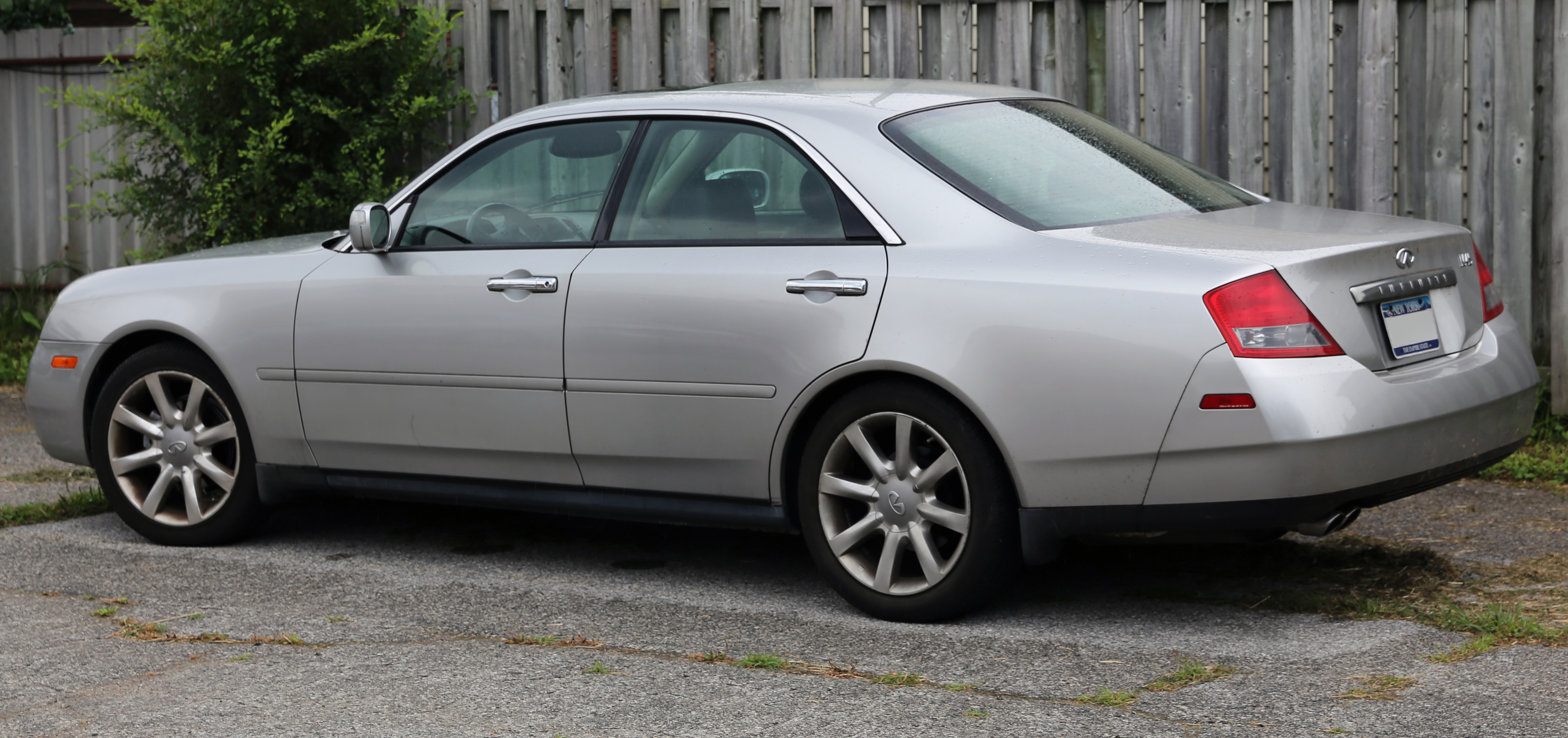 2003 Infiniti M45, US market version.